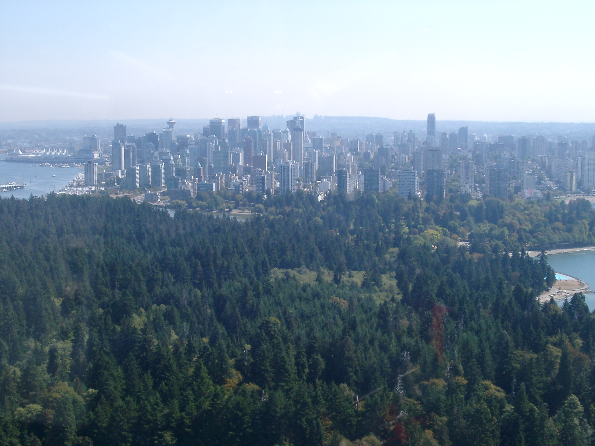 Taken on a floatplane inbound to Vancouver